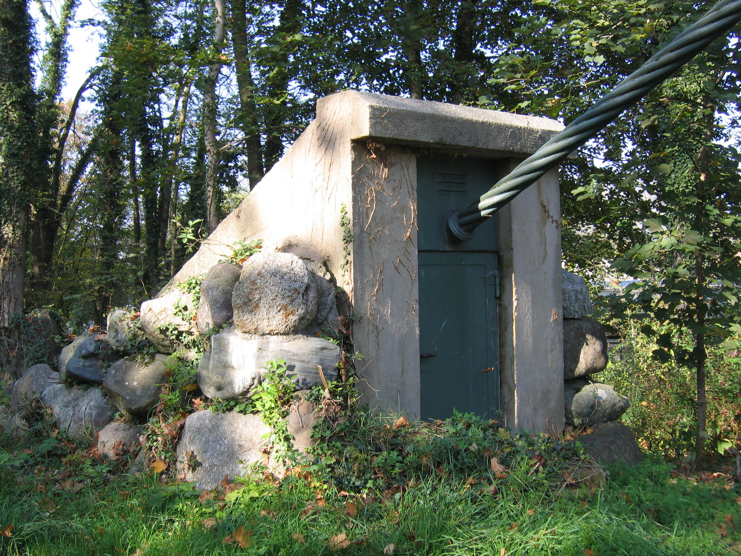 Germany - Baden-Württemberg - Bodenseekreis - Kressbronn/Langenargen: suspension bridge